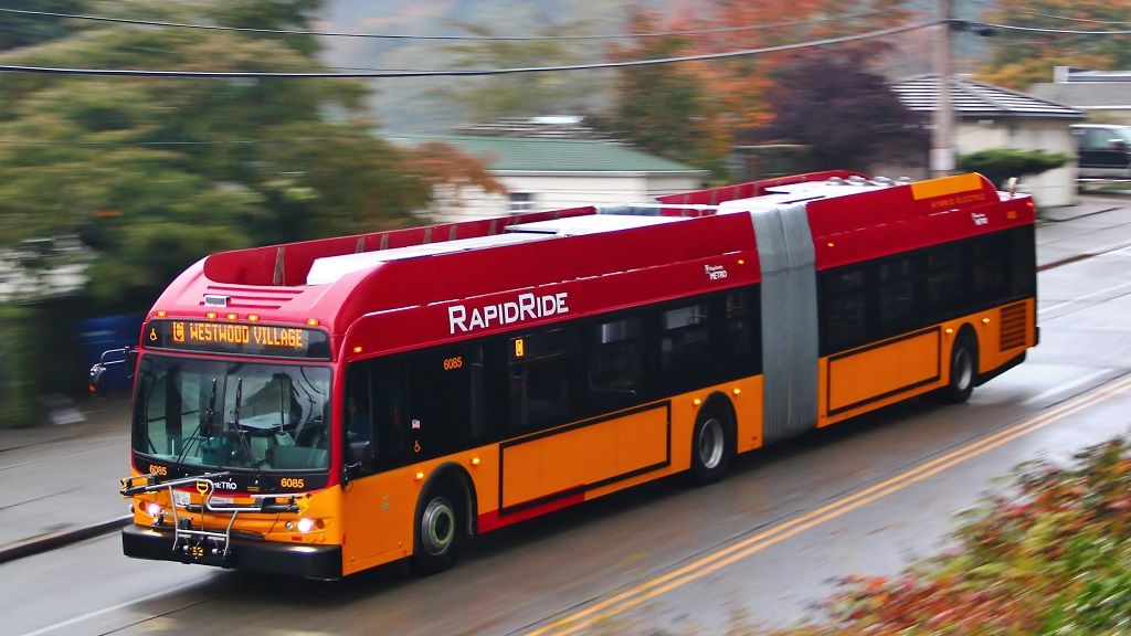 King County Metro's newest bus in service (as of the date the photo was taken on) on the Rapid Ride C-line in West Seattle.